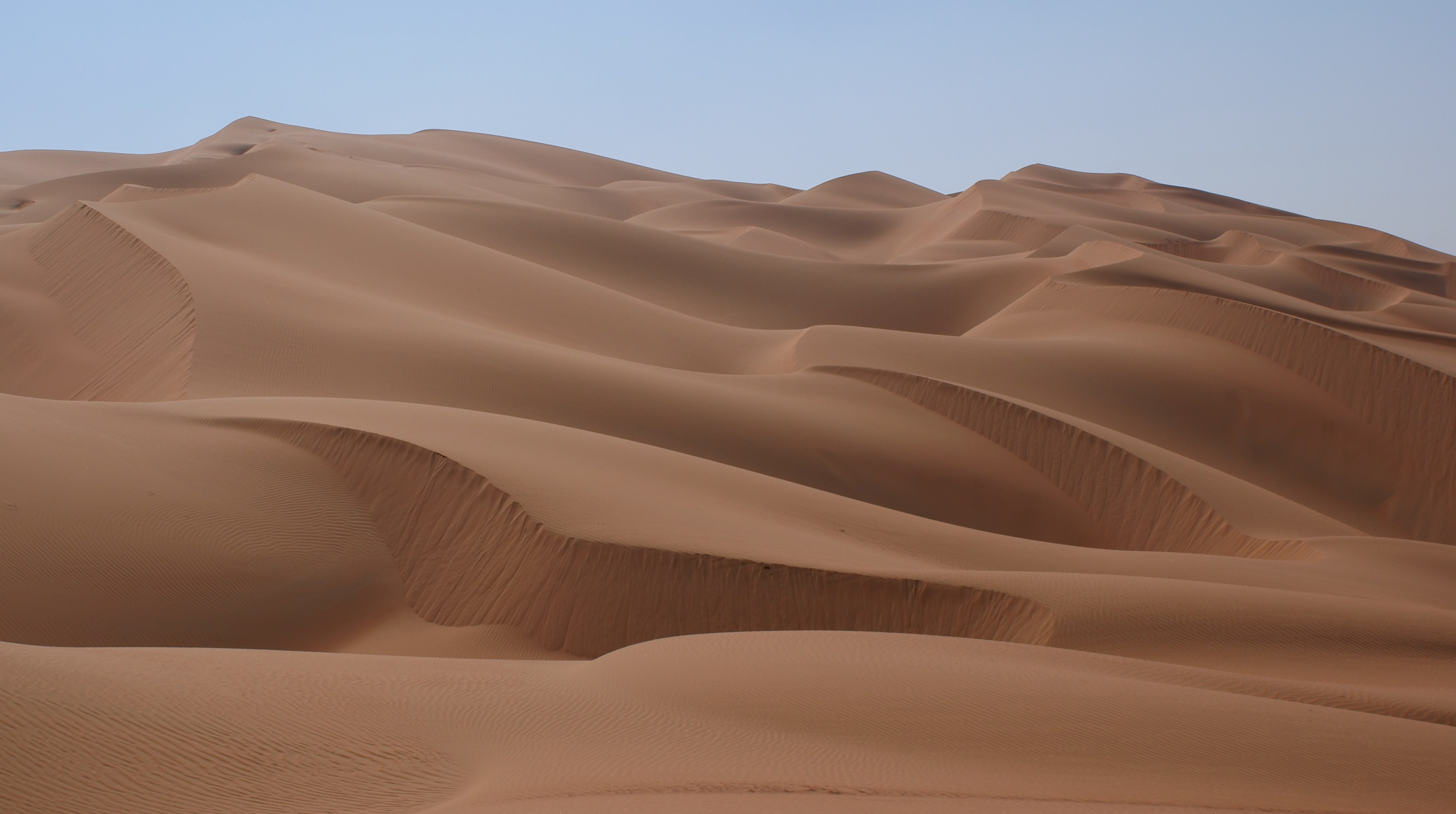 Rub' al Khali or Empty Quarter is the largest sand desert on earth.